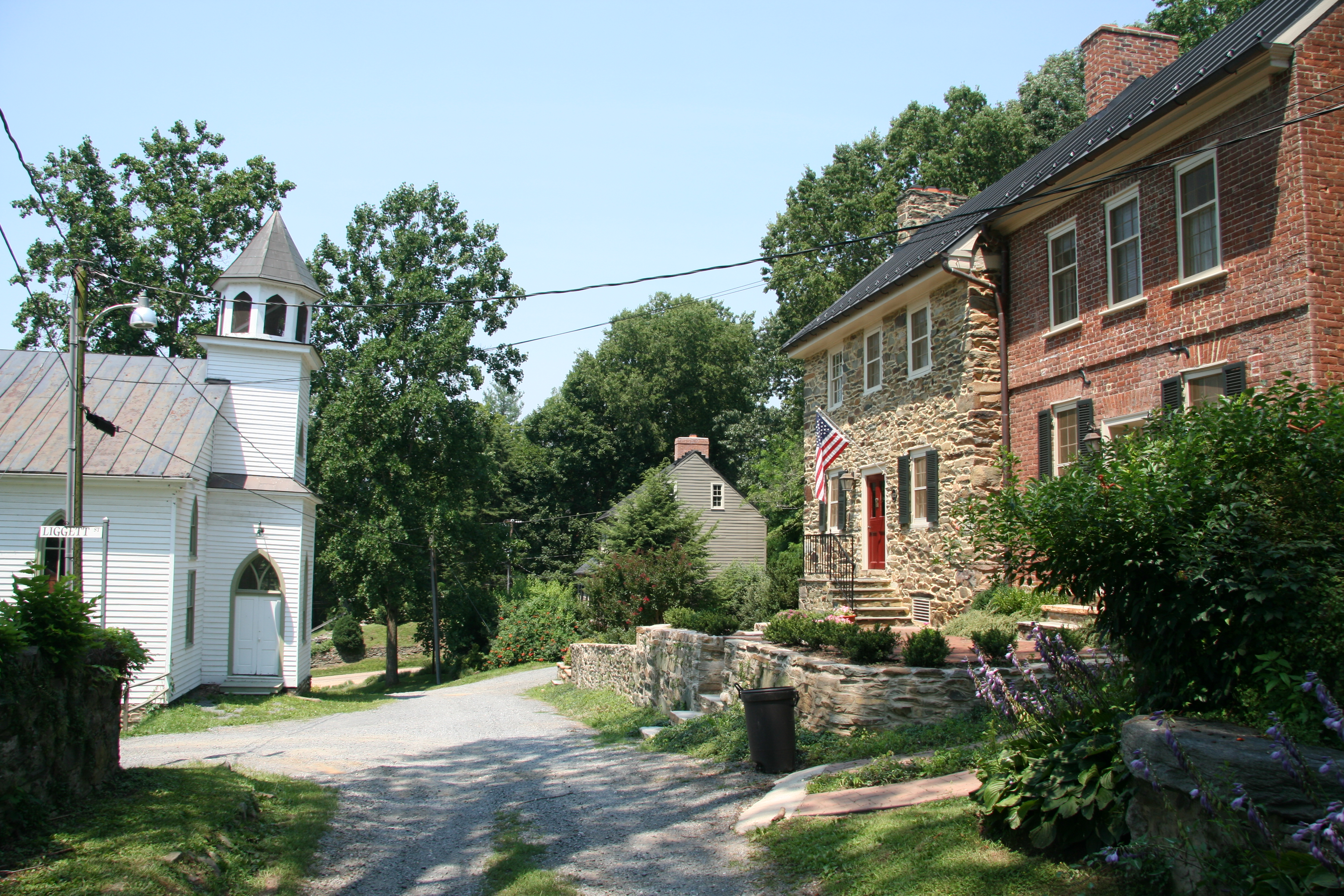 Waterford, Virginia, upper part of town at Liggett Street, USA